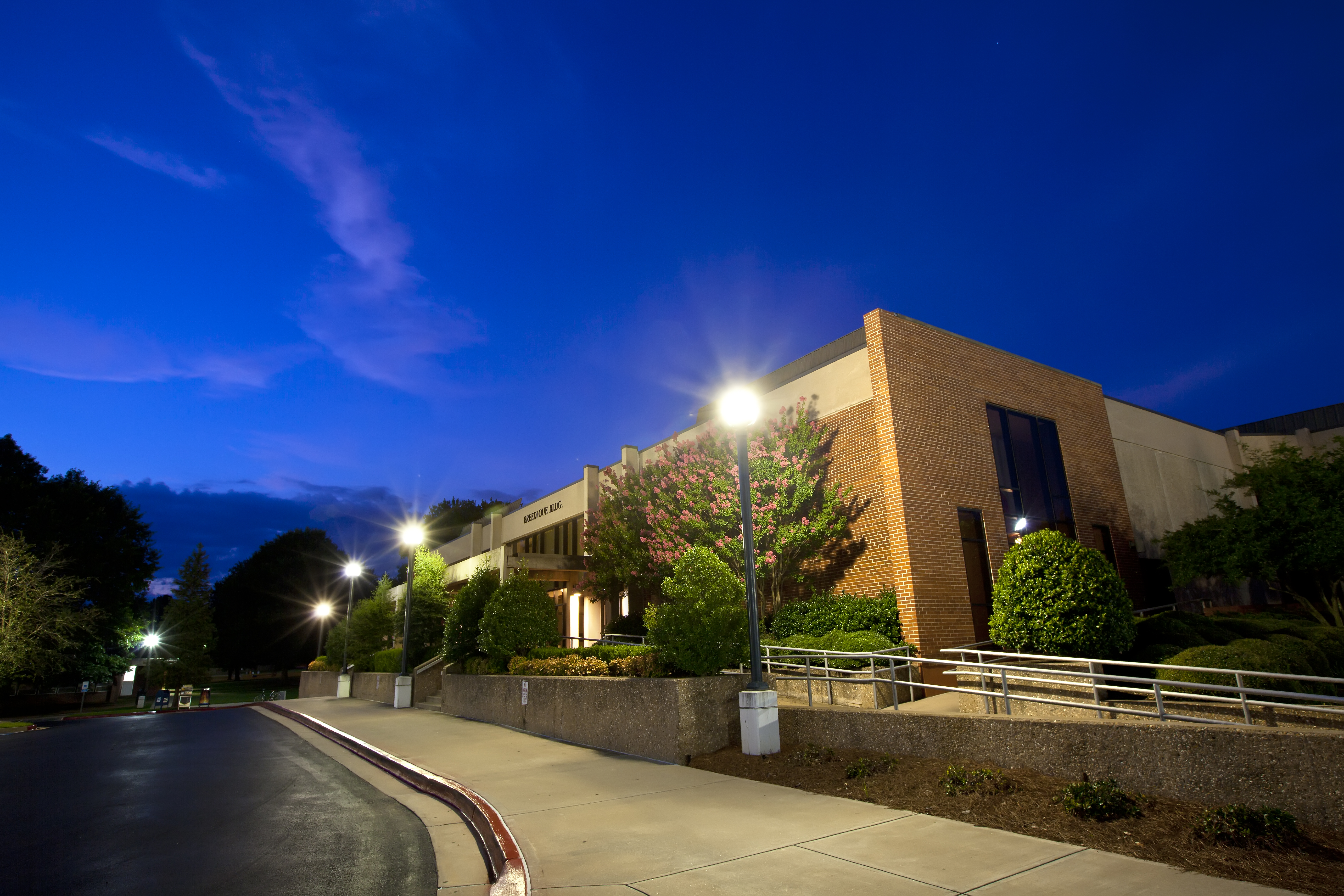 University of Arkansas - Fort Smith